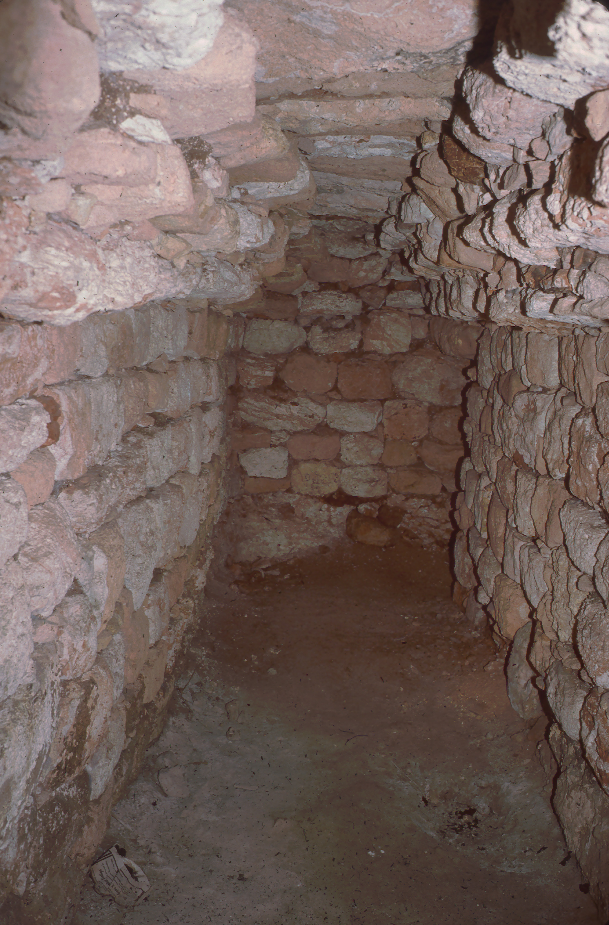 Oxkintoc, Yucatan, Mexico: Satunsat, interior gallery.